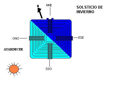 Kukulcán Winter solstice